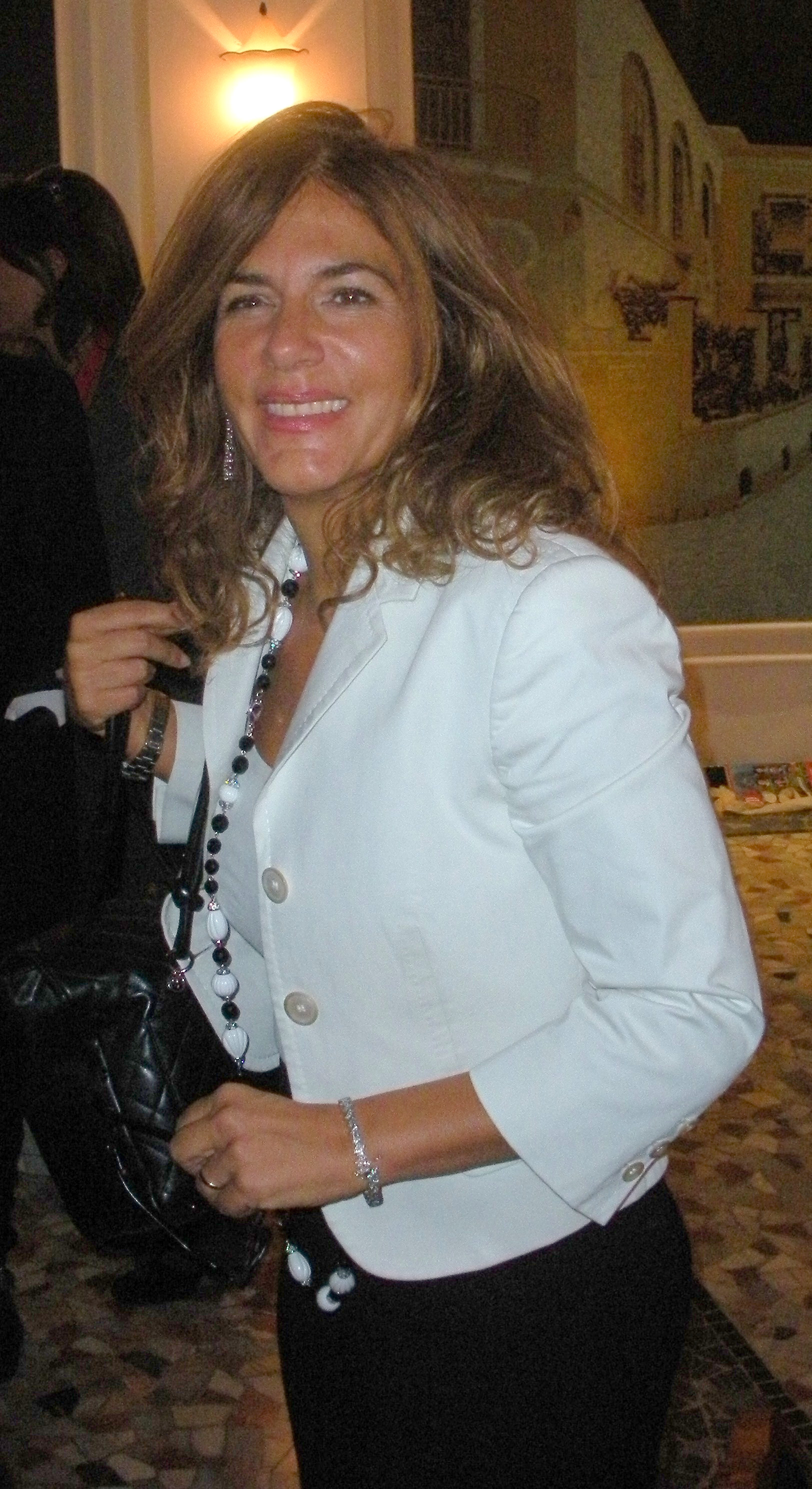 Emma Marcegaglia, italian businesswoman.